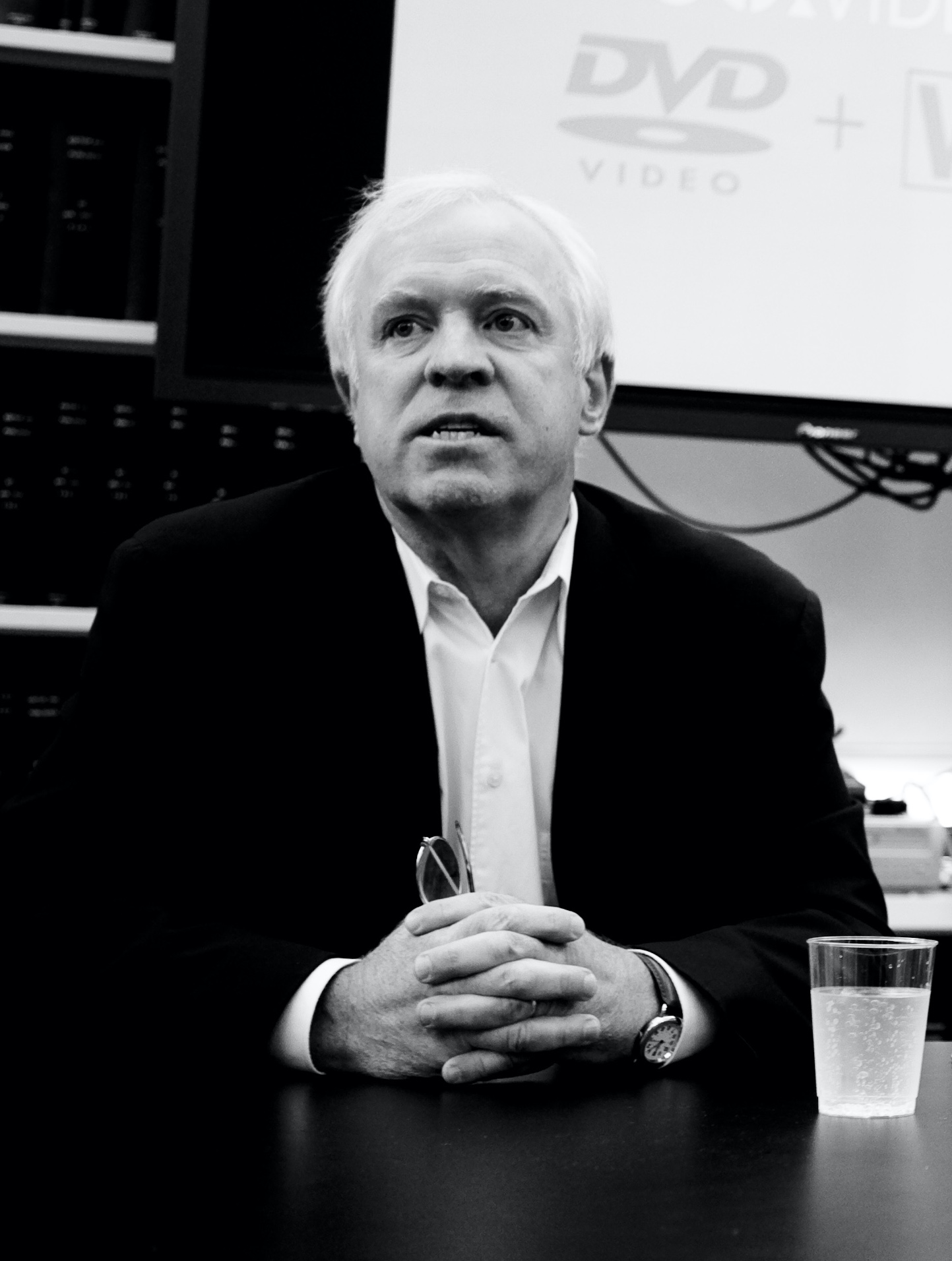 Cropped image of Stephen Talbot at UC Berkeley launching Frontline World investigation program in 2007